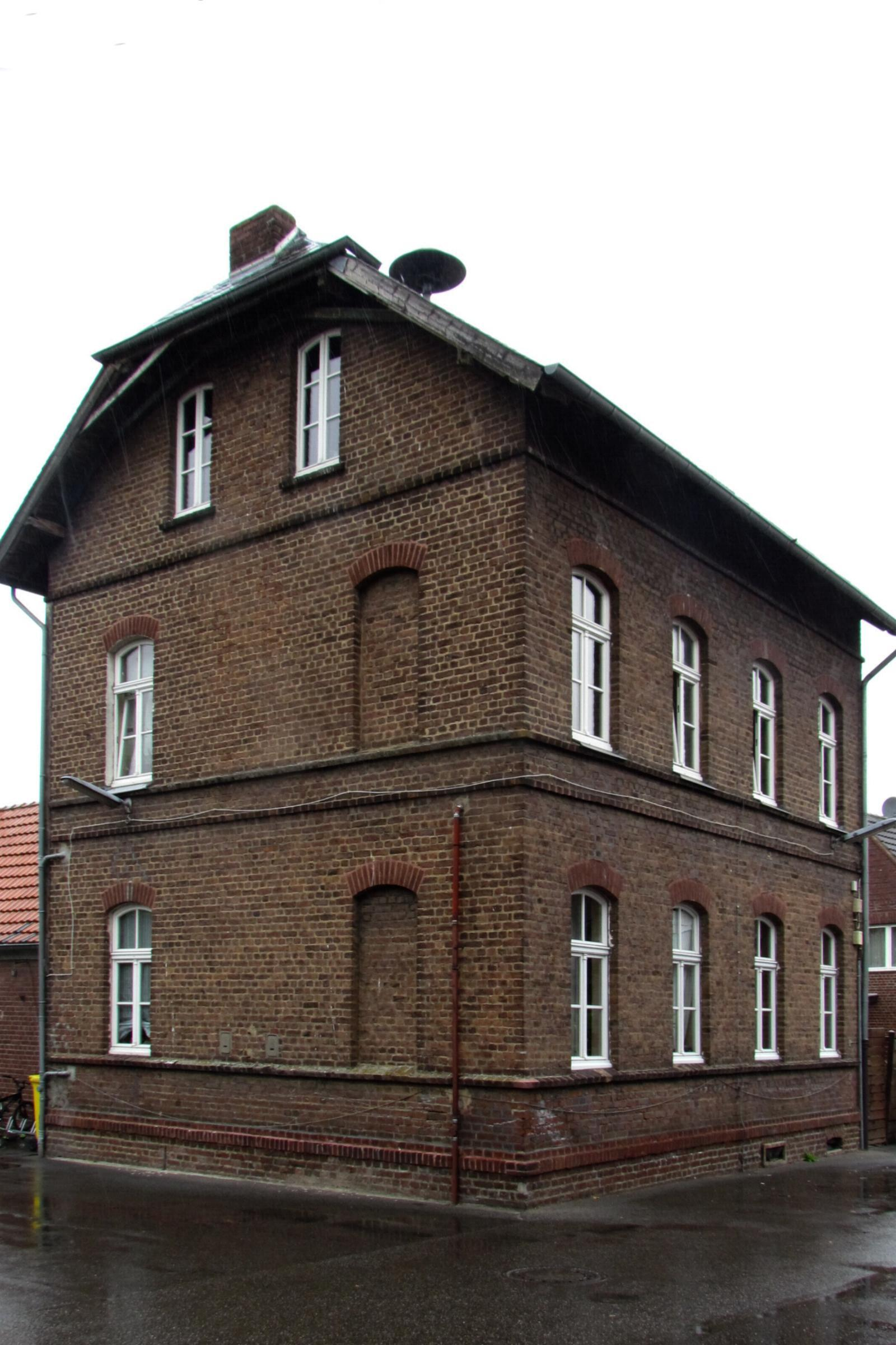 This is a photograph of an architectural monument.It is on the list of cultural monuments of Korschenbroich